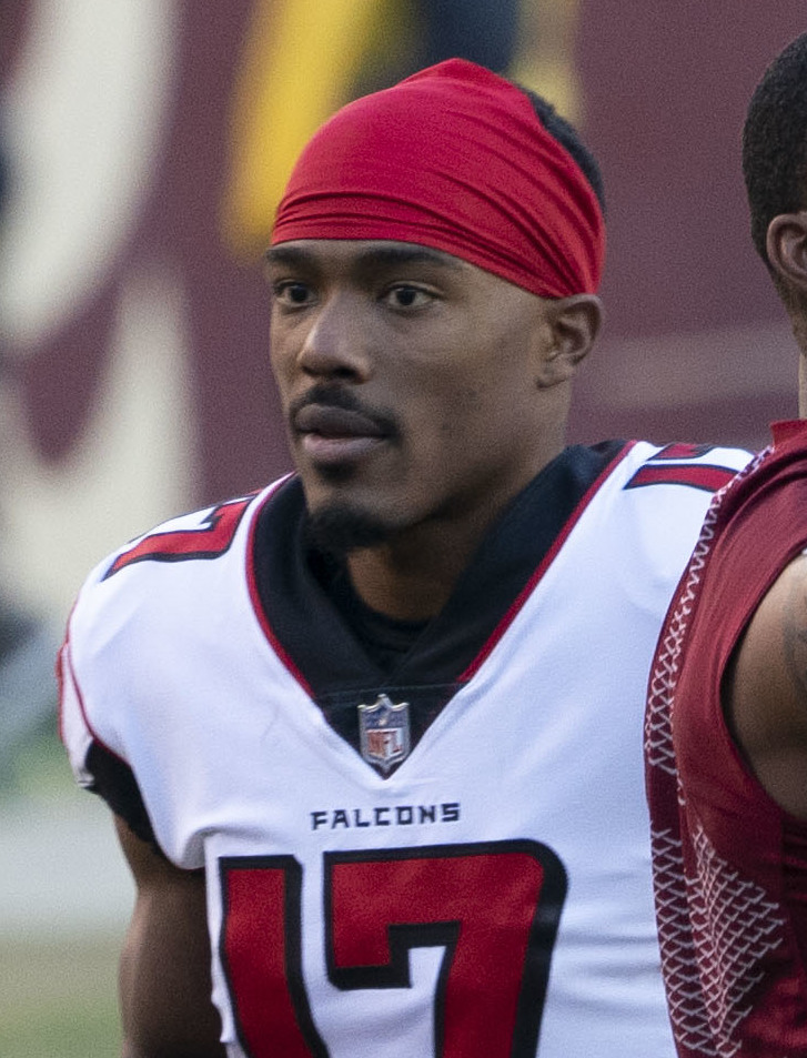 Marvin Hall (left) of the Atlanta Falcons and Paul Richardson (right) of the Washington Redskins on the field at FedEx Field following a 2018 game